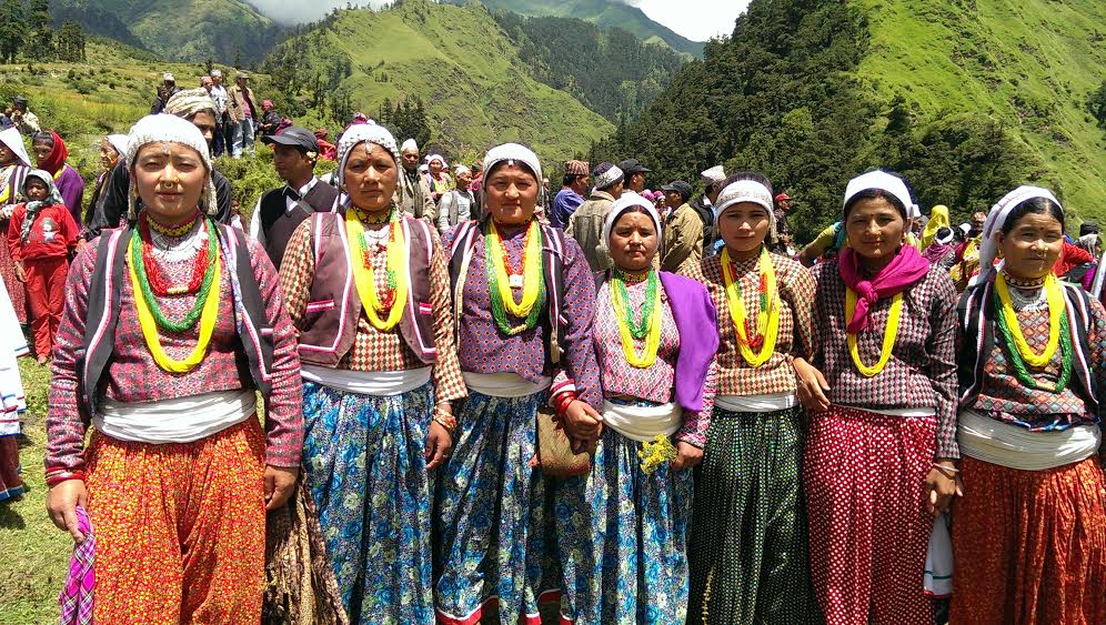 सुर्मा सरोवर जात्रामा सहभागी महिलाहरु